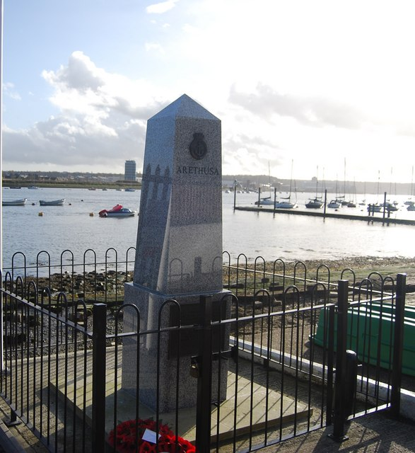 Arethusa Memorial, Lower Upnor Unveiled by Vice Admiral Sir Peter Woodhead to all the boys who lived and trained on the Arethusa at Upnor where the Ship was moored from 1933 until 1974. The memorial will be sited close to the Arethusa causeway and has been designed to fit in with the London Stones.